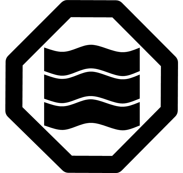 Kamon of kounoke.